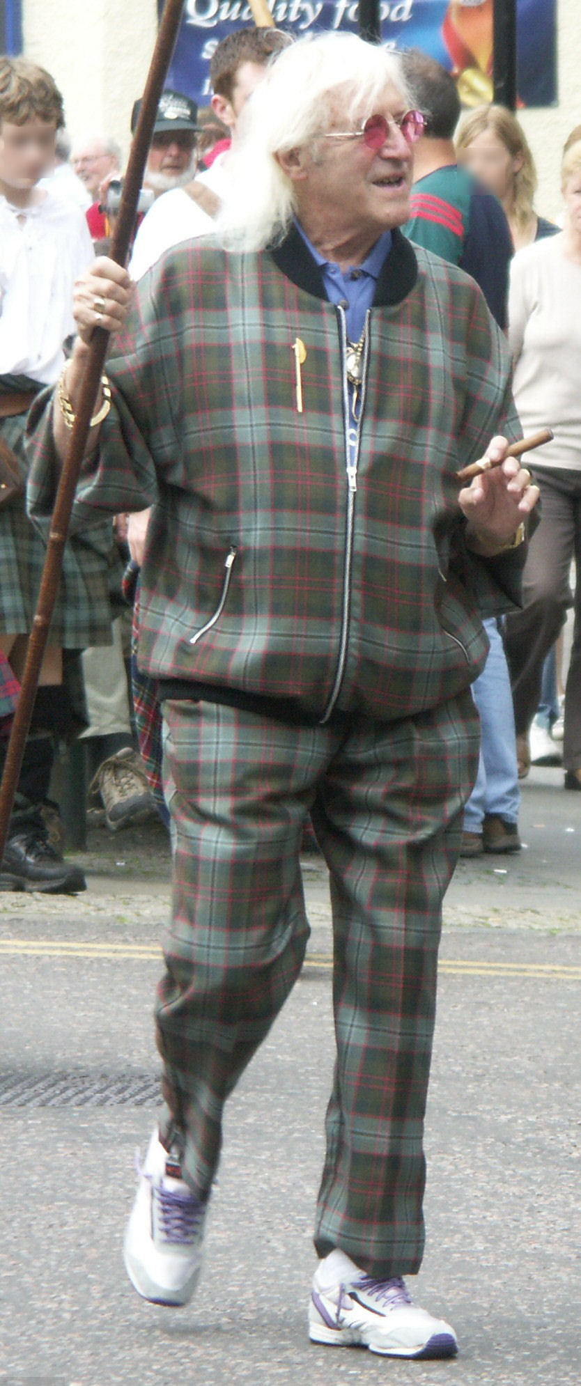 Sir Jimmy Savile Leading the pipe band through Fort William to the Lochaber Highland Games in his capacity as Honorary Chieftain of the games. This was taken on Saturday 29th July 2006, Sir Jimmy Savile recorded the final edition of Top of the Pops during the week rather than take part in a live broadcast on Sunday because of his commitment to the Lochaber Highland Games. He announced that he was stepping down from being Honorary Chieftain but would continue to be a "Special Friend" of the games. This version has blurred two of the faces in the background.